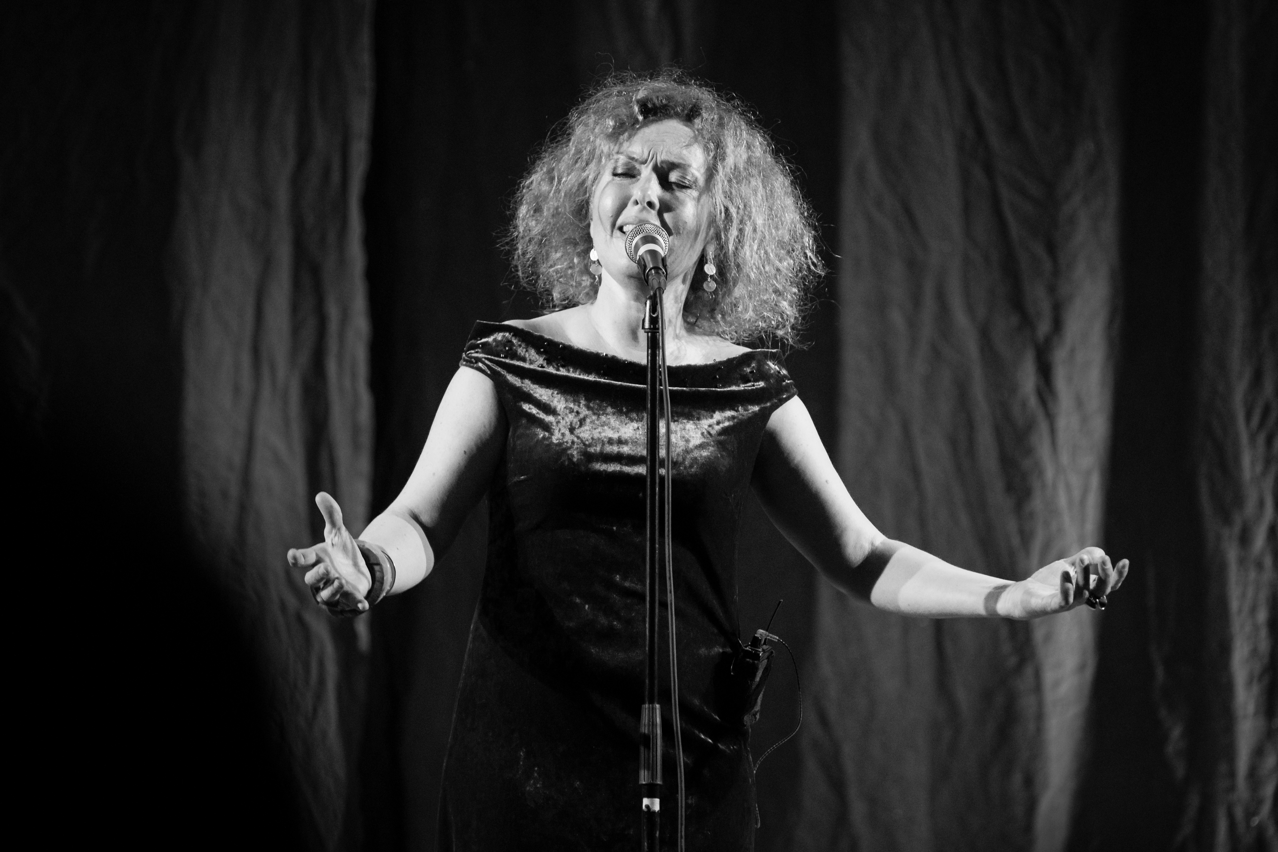 Kristin Asbjørnsen at Thon Hotel Jølster. The concert was part of Jazz på Jølst and took place on 11. October 2019 in Jølster. Lineup:Kristin Asbjørnsen (vocal)Olav Torget (guitar)Suntou Susso (kora)